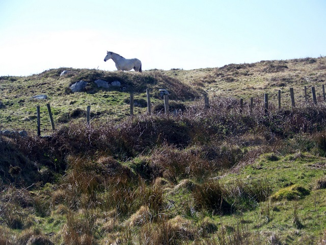 Connemara stallion, Cloch na Ron Most Connemara families had a work-horse in the past, a beast of burden that they took for granted. Only in the early 20th century were Connemara ponies recognised for their exceptional qualities. Hardy, companionable, resilient yet pliant, they are found exclusively in this harsh terrain. Their origin is uncertain. Probably they were a crossbreed of a native Celtic horse and Spanish-Arabs imported from Galicia in north-western Spain in the Middle Ages. Their qualities derive also from the particular combination of climate and terrain and the rigorous genetic selection that such an environment demands. Pasture in Connemara is scarce and the ponies eat very little of it. Instead they feed on the salt-tolerant grasses and seaweeds on the seashore. In spite of their study frame, the ponies are naturally elegant and have become popular everywhere for riding and showjumping.